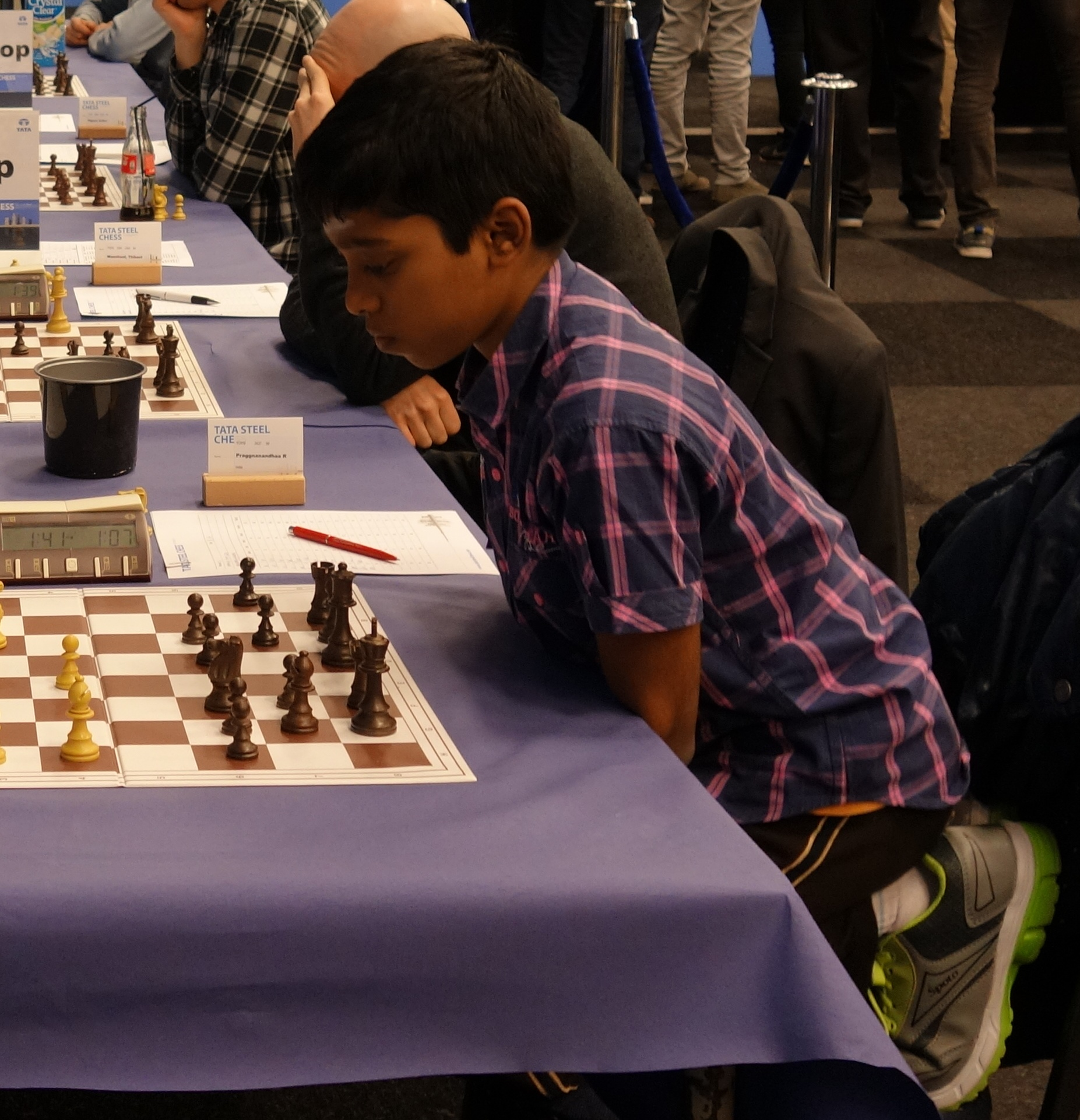 Praggnanandhaa Rameshbabu -Tata Steel Chess Tournament 2017, Wijk aan Zee (the Netherlands), 28 January 2017